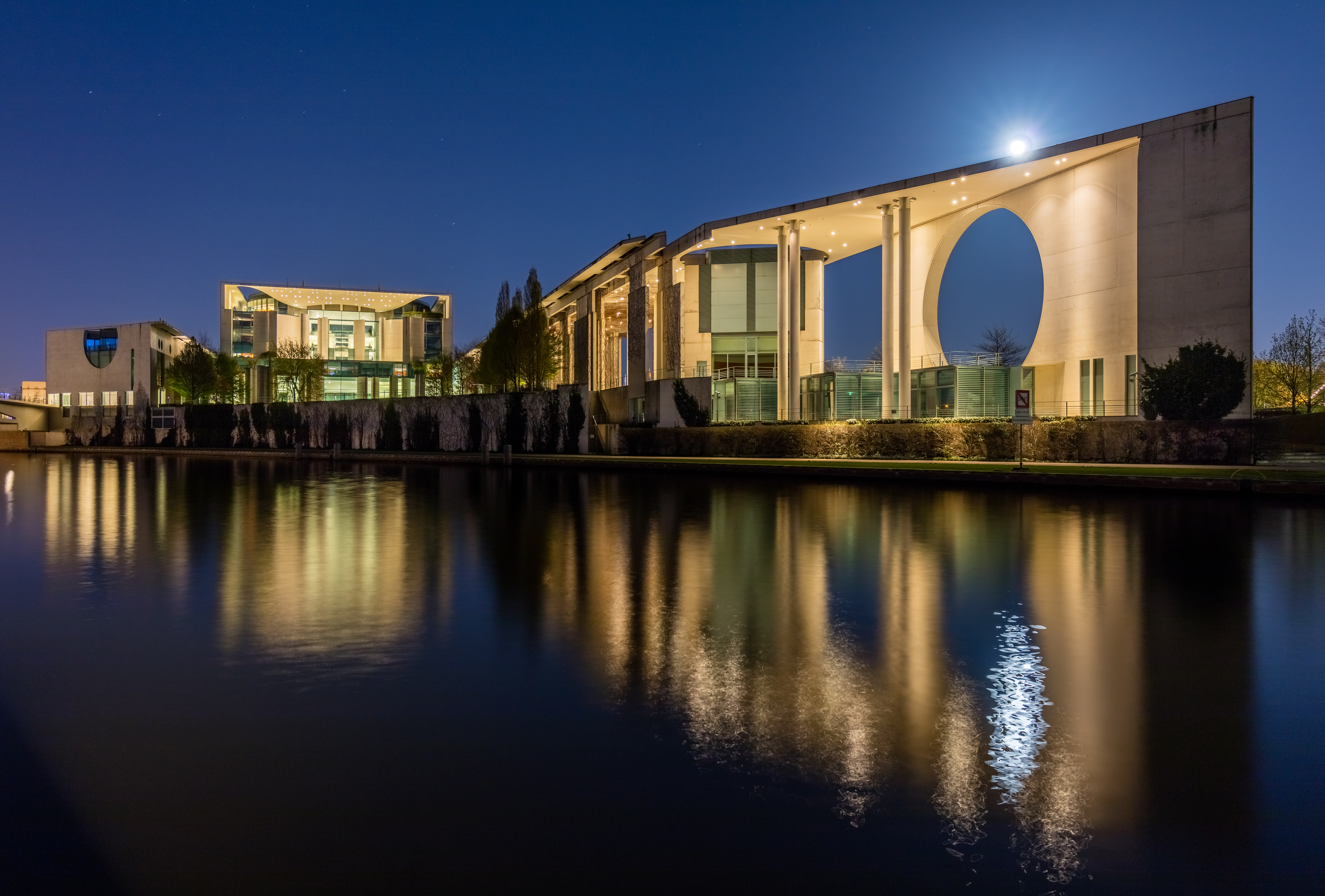 German Chancellery, Berlin, Germany